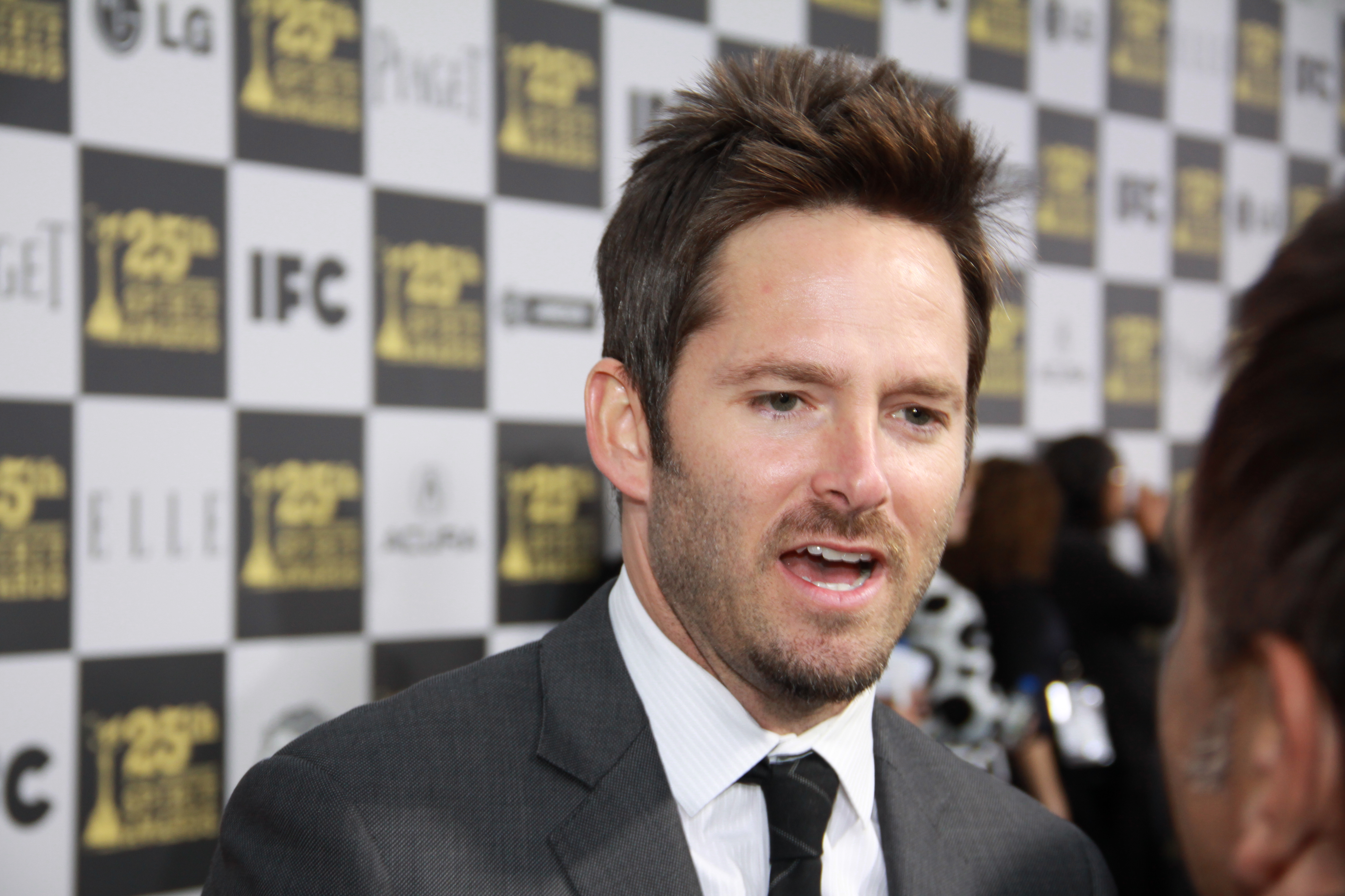 Scott Cooper at the Independent Spirit Awards in Los Angeles on March 5th, 2010.